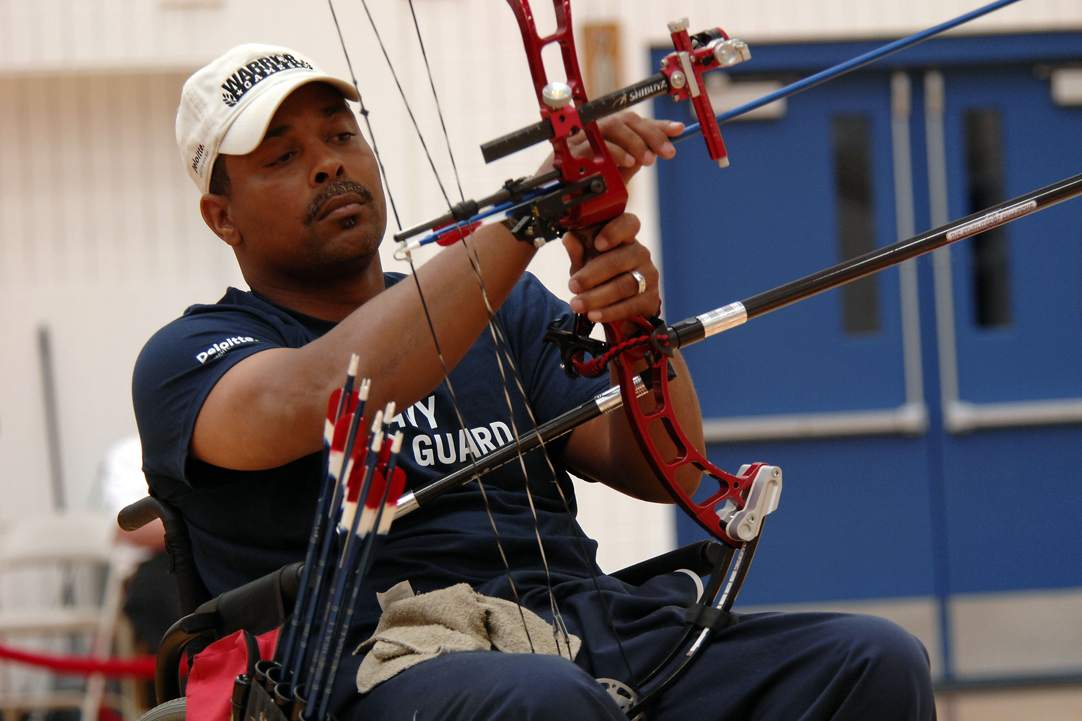 COLORADO SPRINGS, Colo. (May 19, 2011) Retired Boatswain's Mate 1st Class Andre C. Shelby from Team Navy/Coast Guard participates in the compound archery competition during the second annual Warrior Games. The Warrior Games is a Paralympic-style sport event among 200 seriously wounded, ill, and injured service members from the U.S. Army, Navy, Air Force, Marine Corps, and Coast Guard. (U.S. Navy photo by Mass Communication Specialist 1st Class Andre N. McIntyre/Released)